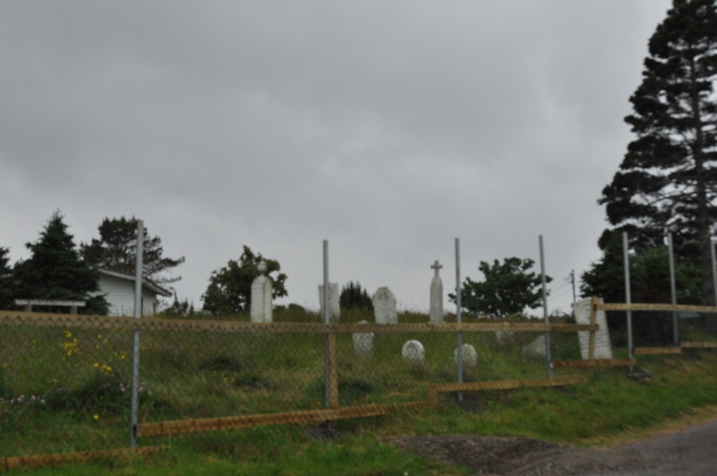 First Anglican Cemetery and War Memorial Site Municipal Heritage Site, Arnold's Cove, Newfoundland.